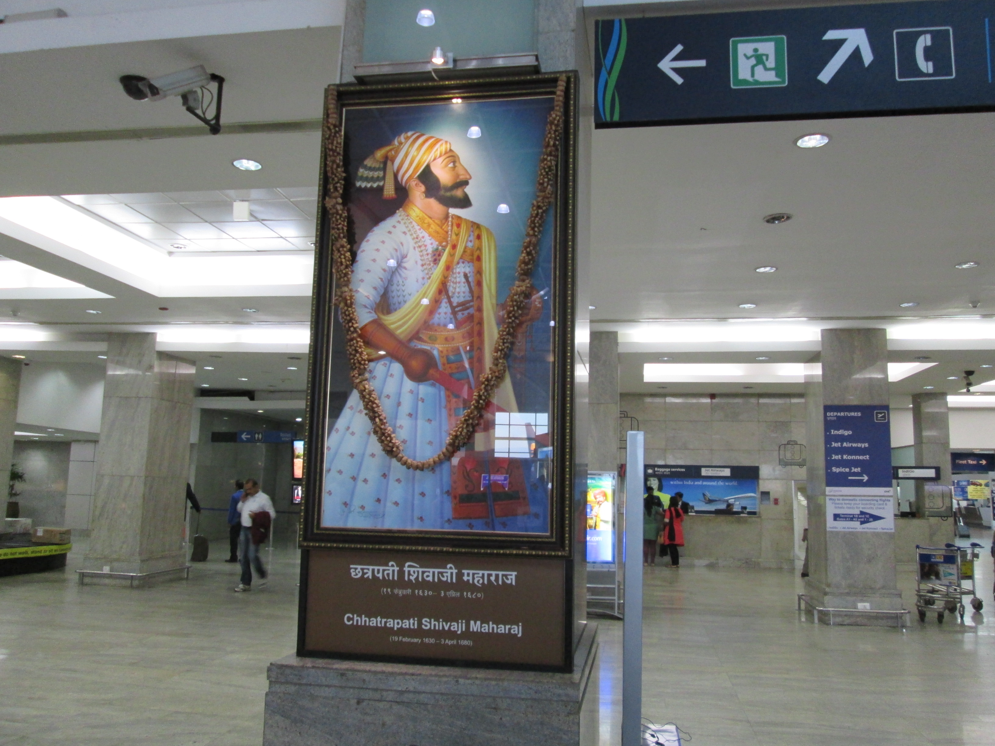 A portrait of the great emperor H.H. Chhatrapati Shivaji at the Chhatrapati Shivaji International Airport, Mumbai